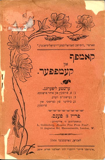 Kampf un kempfer - a Yiddish pamphlet written by Russian Socialist-Revolutionaries exiled in London